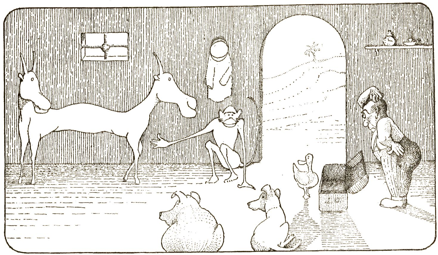 jpg of image on page 107 of File:The Story of Doctor Dolittle.djvu